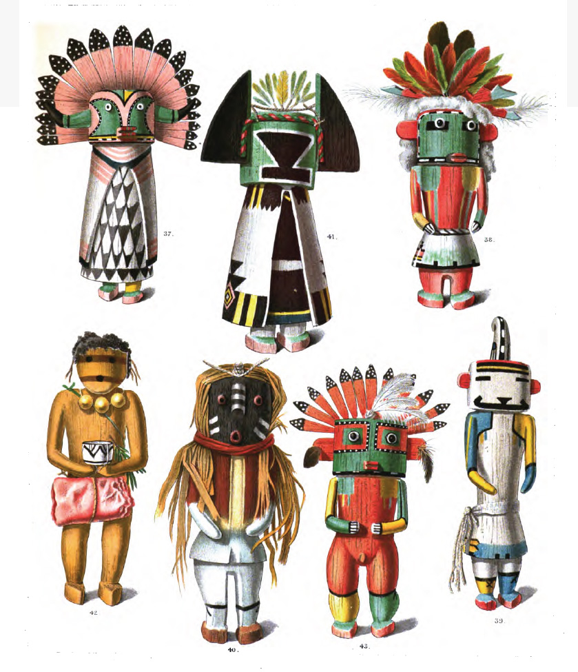 Drawings from an 1894 anthropology book of Kachina dolls (tihu-tui) representing kachinas, or spirits, made by the native Pueblo people of the Southwestern U.S. The dolls are made of carved cottonwood and traditionally given to children. The figures are identified on p. 74 of the source as representing the kachinas: 37.Si-o-S(h)a-li-ko 38.Si-o-ka-tci-na 39.Co-tuk-i-nun-wu 40.La-puk-ti 41.Do-mas-ka-tci-na 42.Tcuc-ku-ti 43.Si-o-sa-li-ko. Alterations to image: removed plate number.